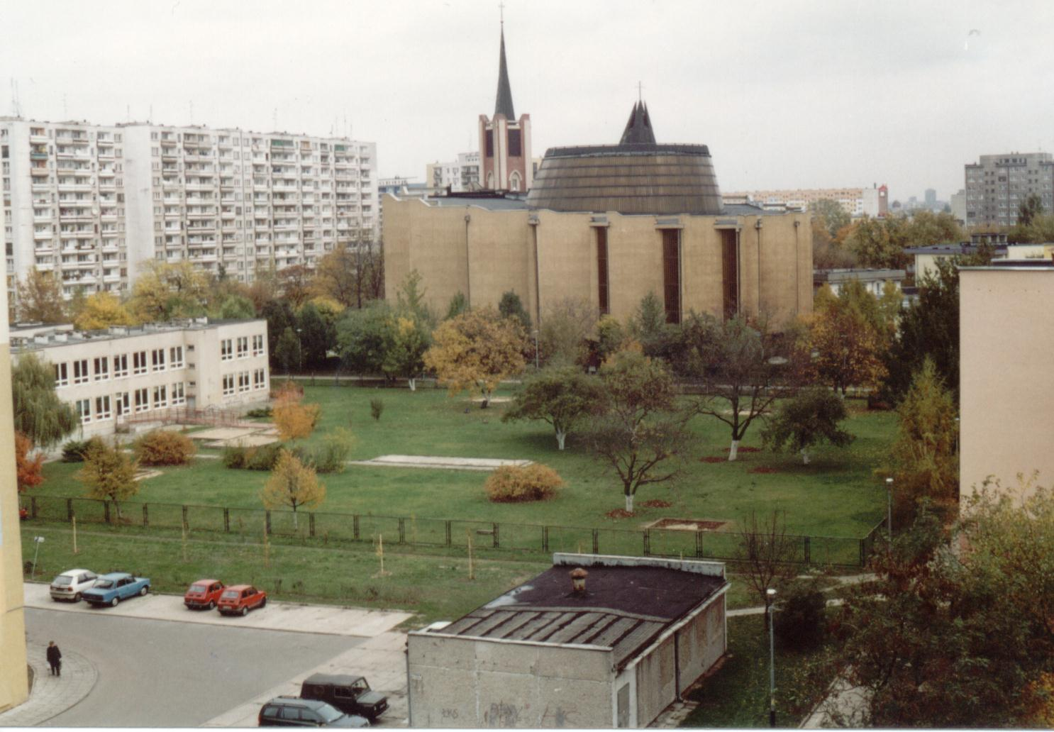 Church NSJ in Lodz, Poland